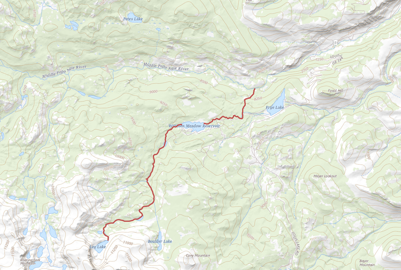 Roaring Fork Creek in the Wind River Mountains